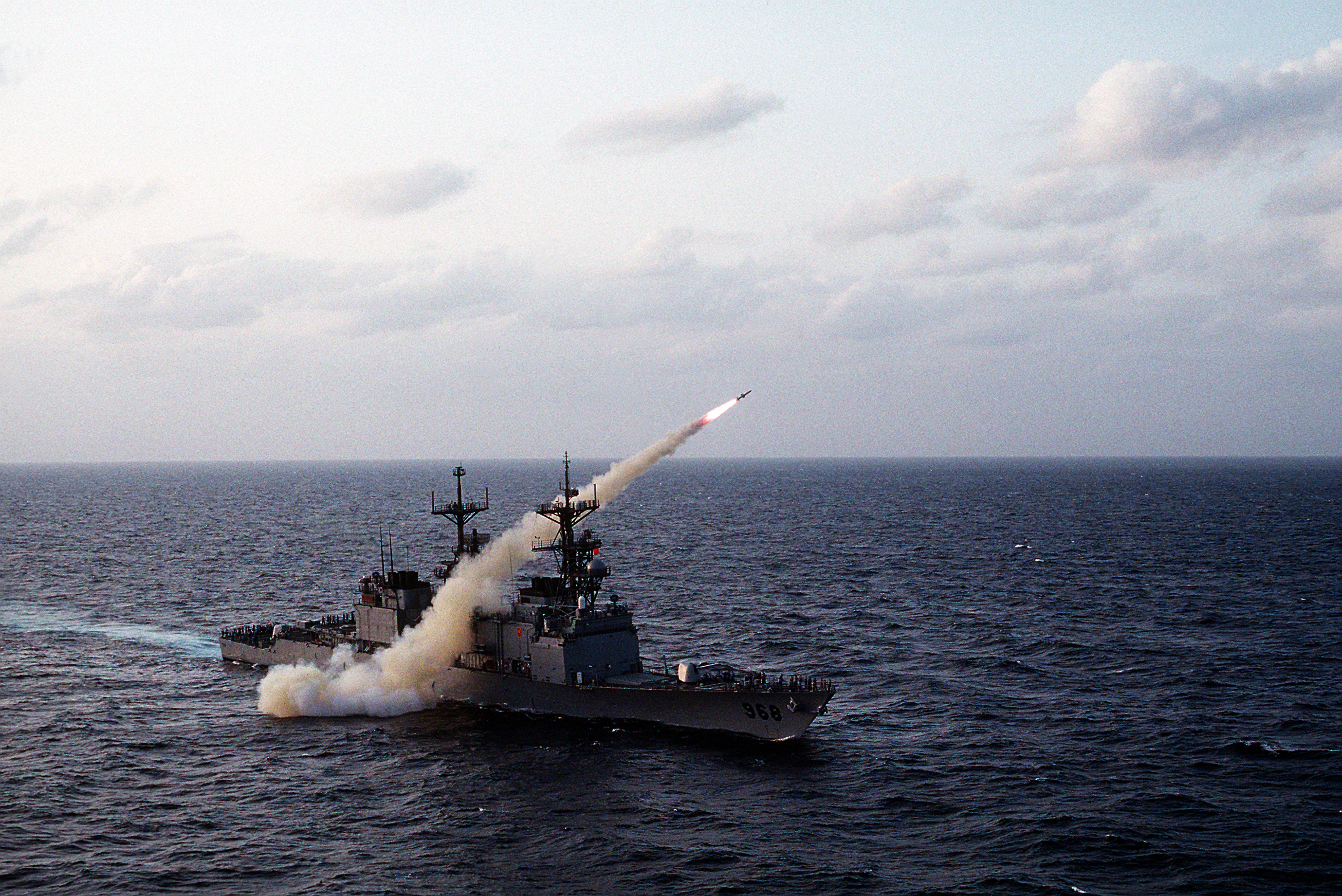 The destroyer USS ARTHUR W. RADFORD (DD-968) fires a Harpoon missile during an Operation Red Reef III exercise. DN-ST-92-07302. (Red Reef II was conducted in the Gulf of Oman and northern Arabian Sea.)